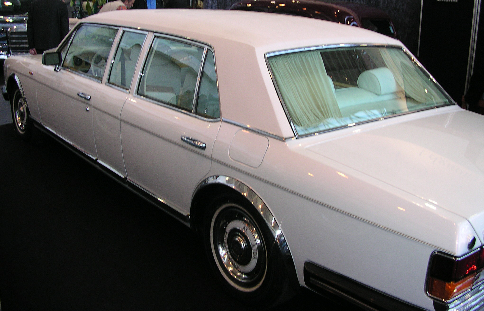 Essen Techno-Classica 2007, Rolls-Royce Silver Spur long